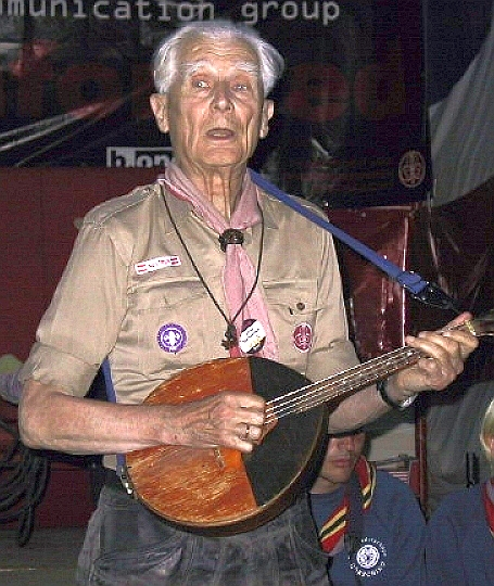 Alexej Stachowitsch, performing "Brüder auf", the song of the 1951 Jamboree during the closing event of "b.open" (read: "be open") a national jamboree in Austria which took place in Austria St. Gilgen/Salzburg from July 15 to 26, 2001.